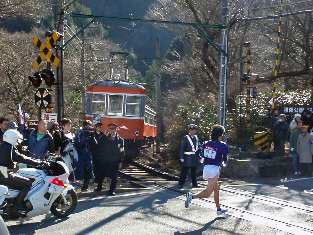 When the runner of Hakone-ekiden Relay Race passes, Hakone Tozan Railway stops the train in this side of the railroad crossing.